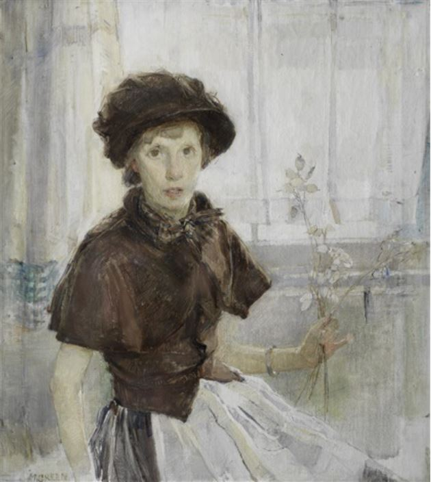 Image of a painting by Madeline Green